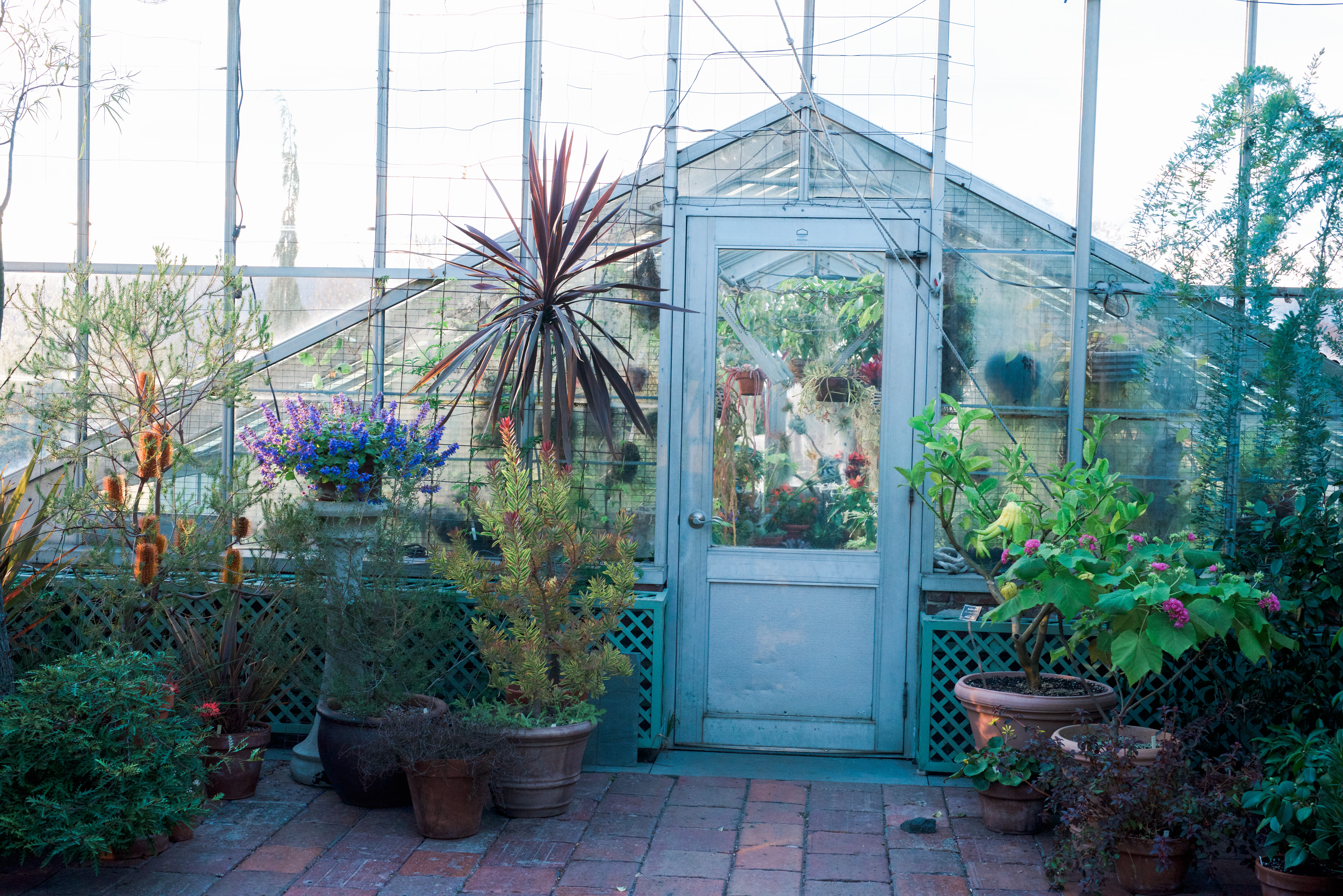 Wave Hill Conservancy, greenhouse interior.